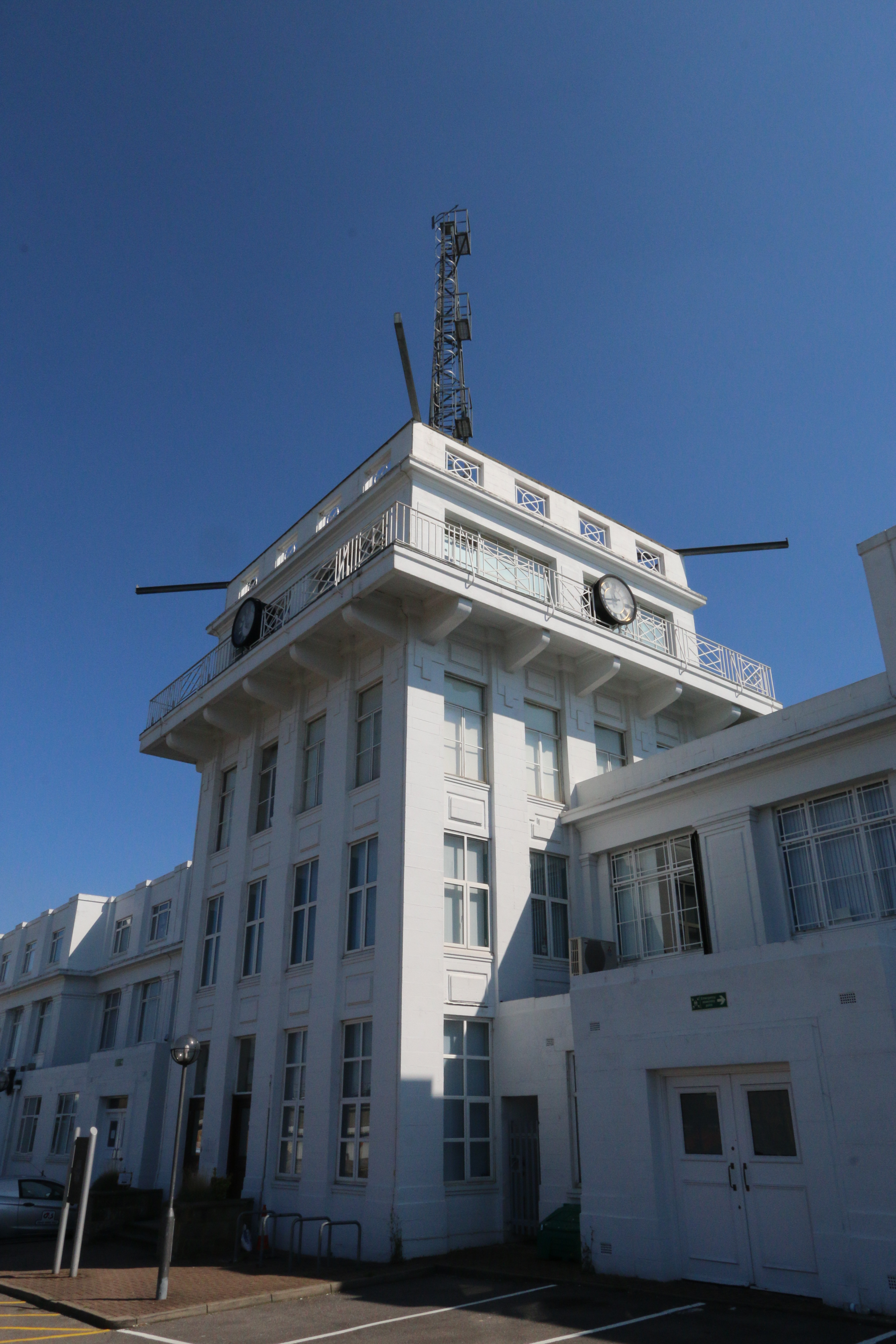 Airport House Wikidata has entry Q26484068 with data related to this item. The world's first airport control tower and terminal building. Croydon Airport. UK